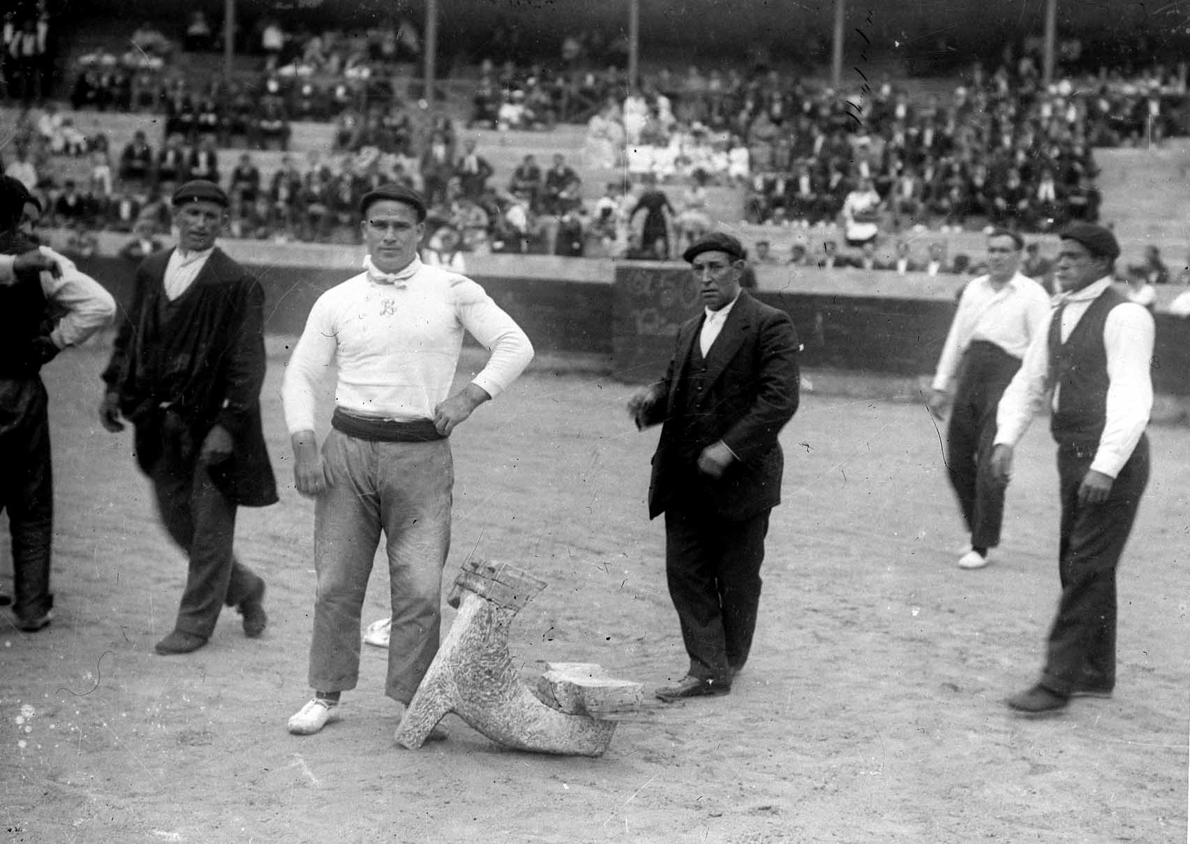 Biktor Zabala in an anvil lifting competition (ingude altxatzea)